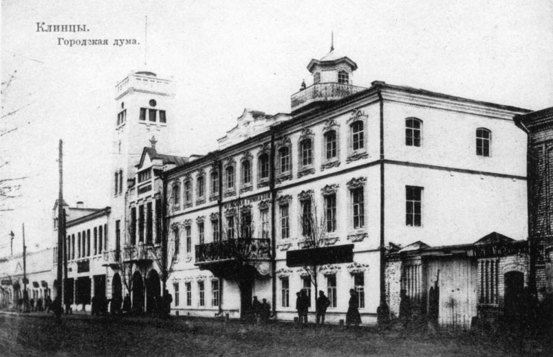 Klintsy, Bryansk oblast. City hall